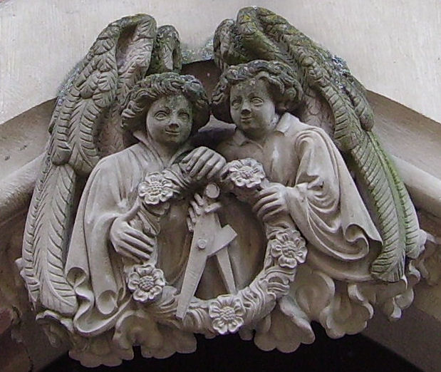 door of Heidelberg castle (Heidelberger Schloss)